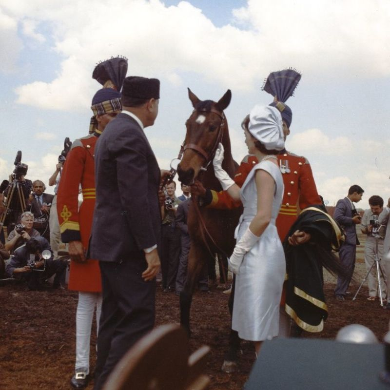 Pakistan President Mohammed Ayub Khan presents Mrs. Kennedy with a bay gelding as a gift, March 22, 1962. The horse, named Sardar, (“Chief” in Arabic) was enthusiastically received by Mrs. Kennedy, who was an accomplished equestrian.